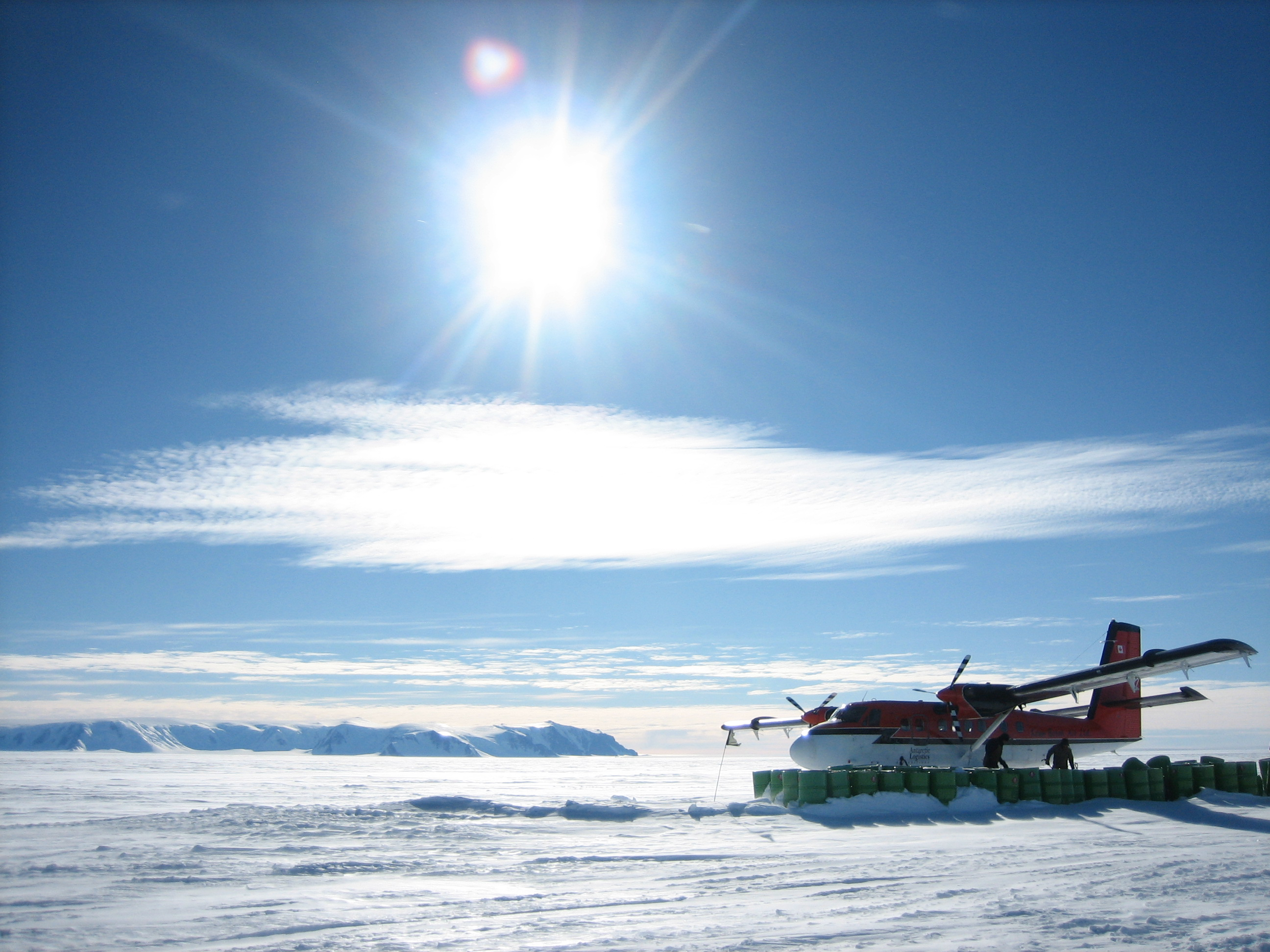 Thiel Mauntains refueling depot. Taken by Richard Laronde on 1/20/2007.